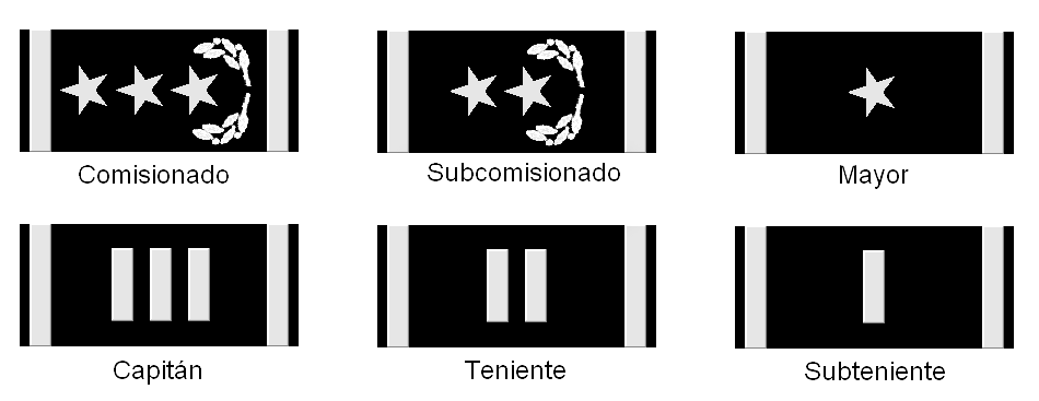 Panama Police Ranks (Officer)